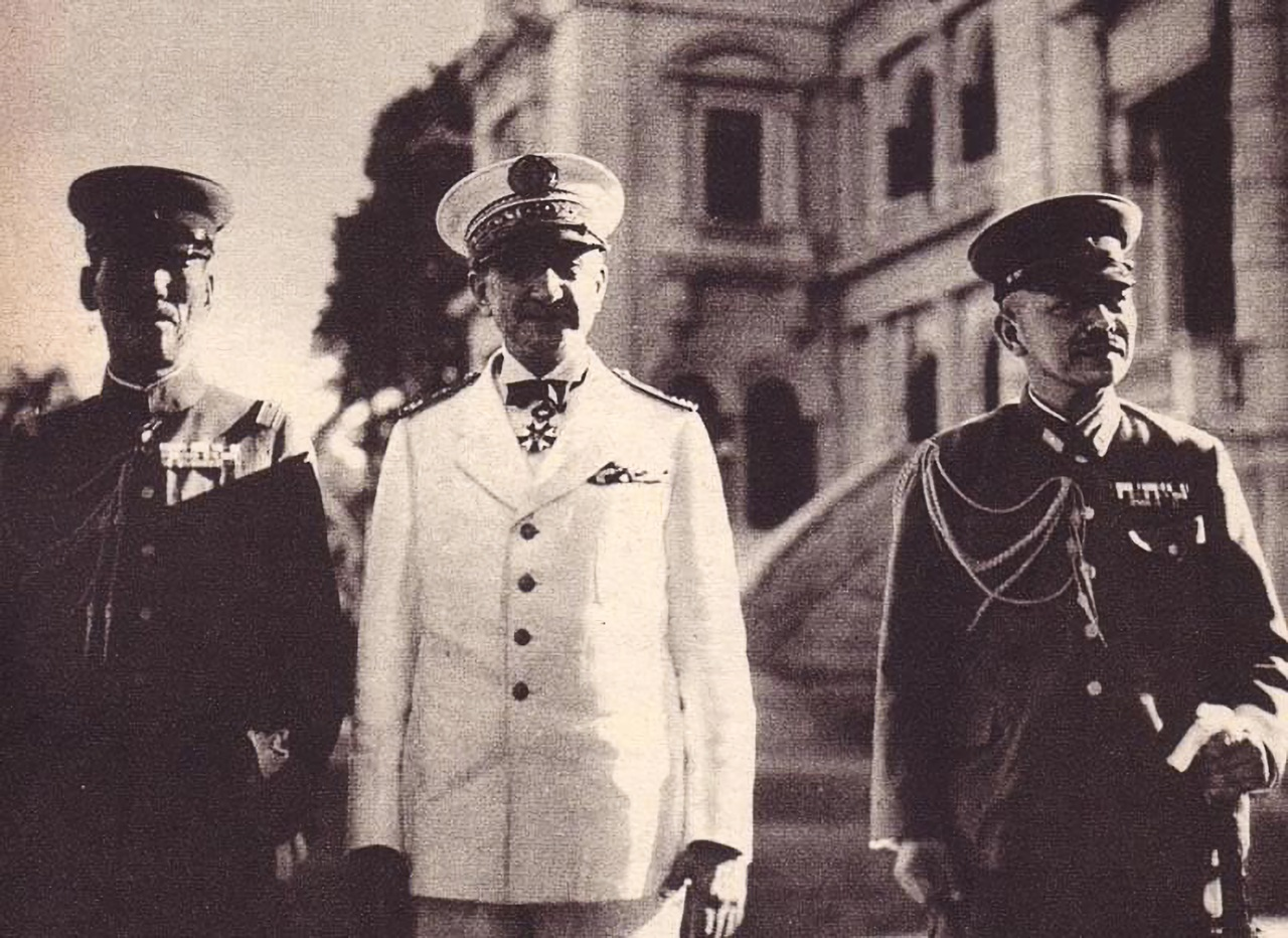 Tominaga and Decoux discussing Japanese occupation of Vietnam